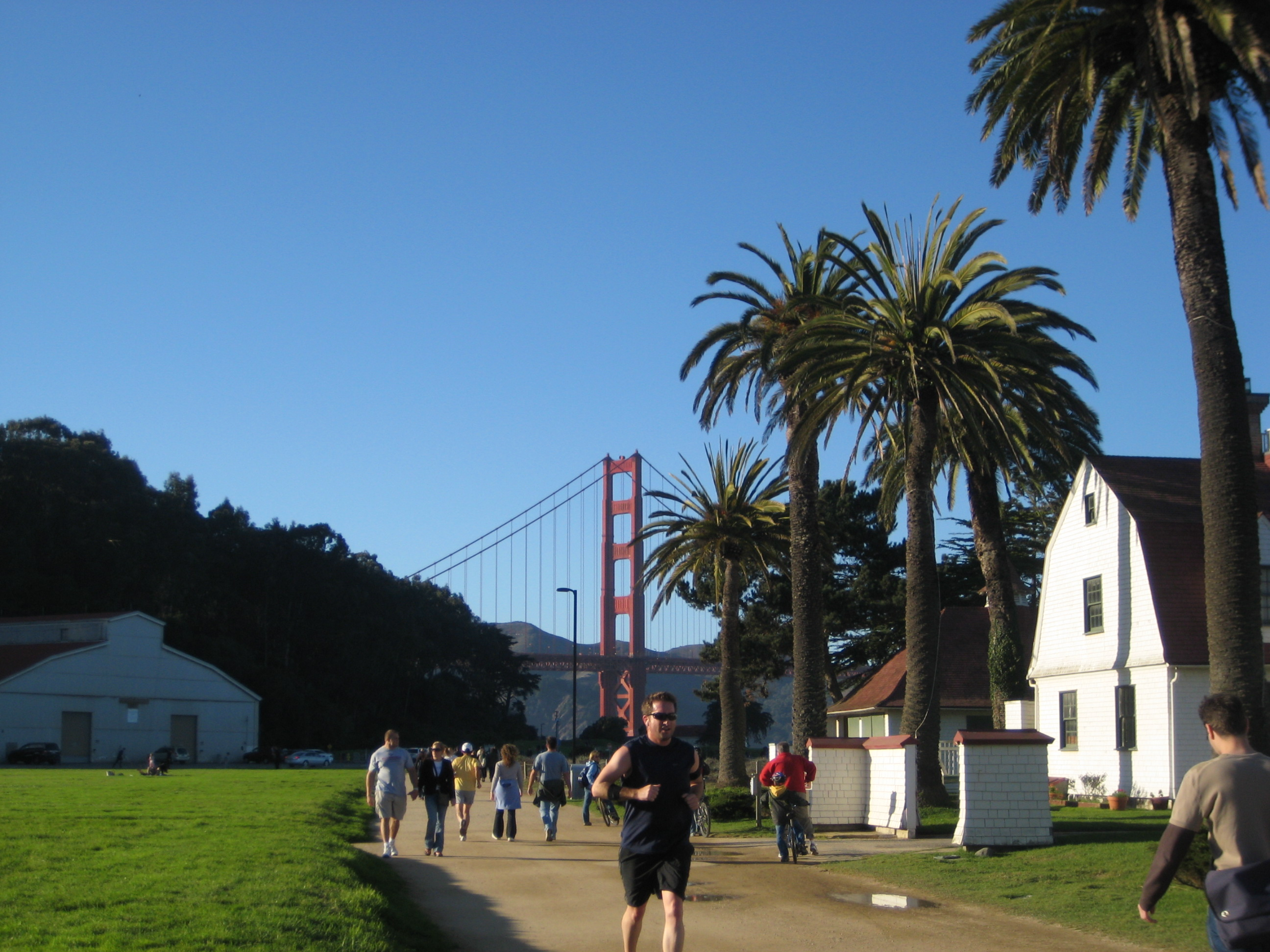 Crissy Field — with Canary Island date palms (Phoenix canariensis) and Golden Gate Bridge tower. In the Presidio of San Francisco, California.